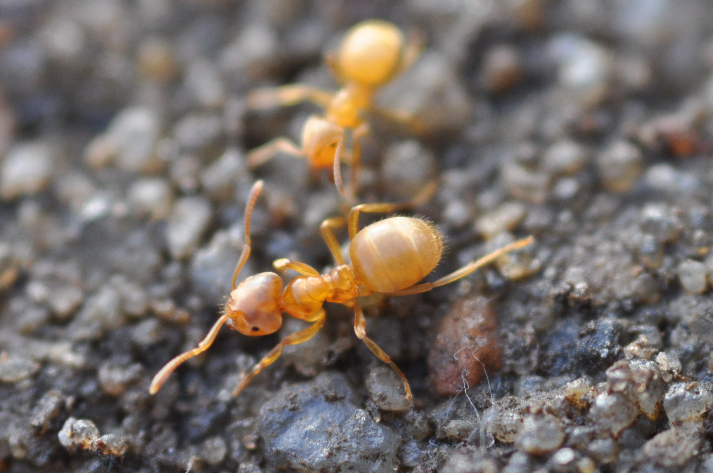 Yellow meadow ant in Kirchwerder, Hamburg.